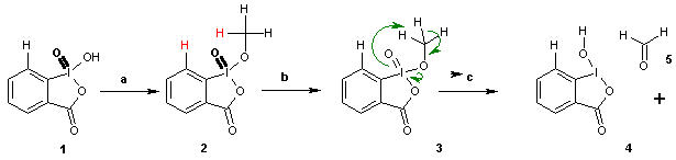 IBX acid mechanism